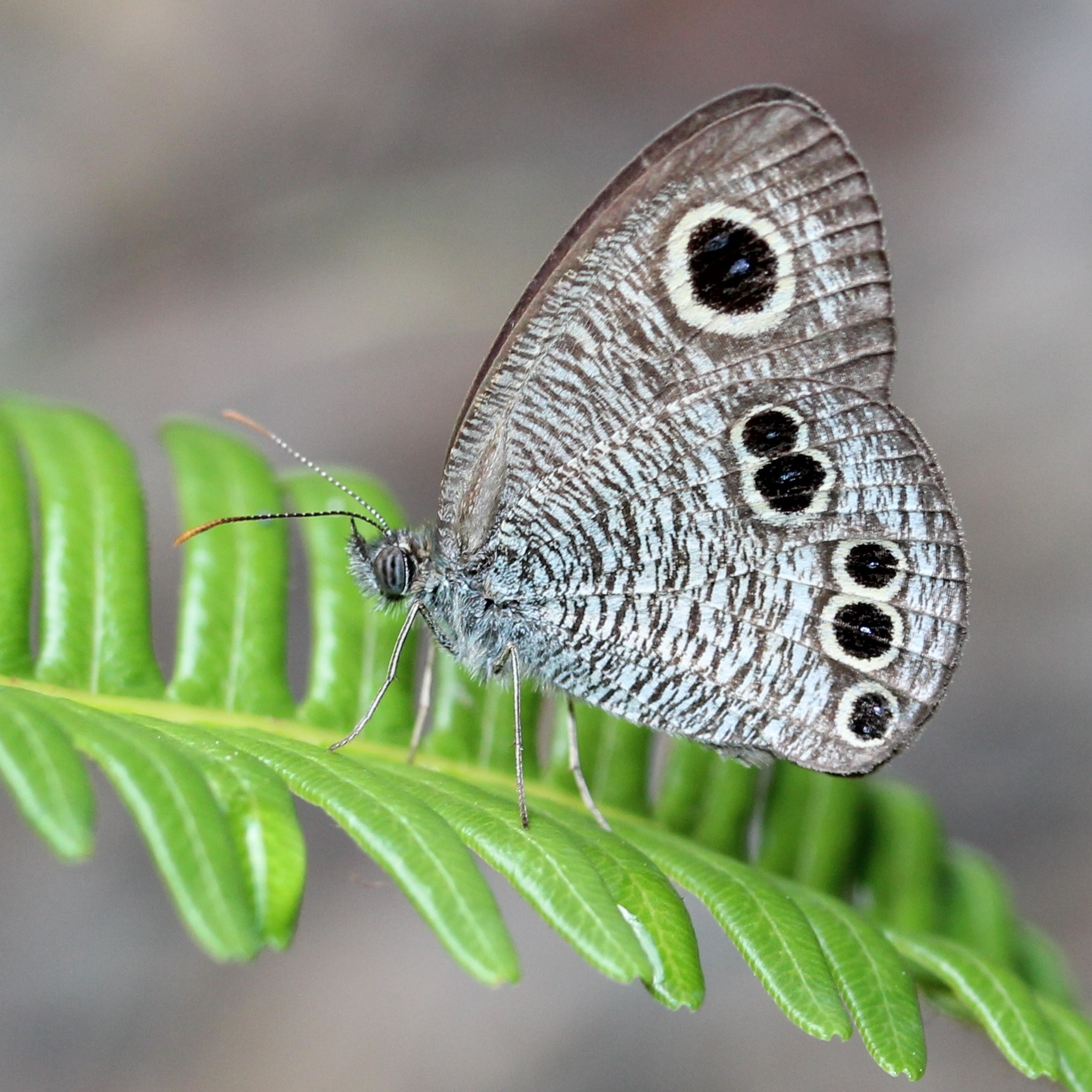 Ypthima argus on the leaf in Japan.